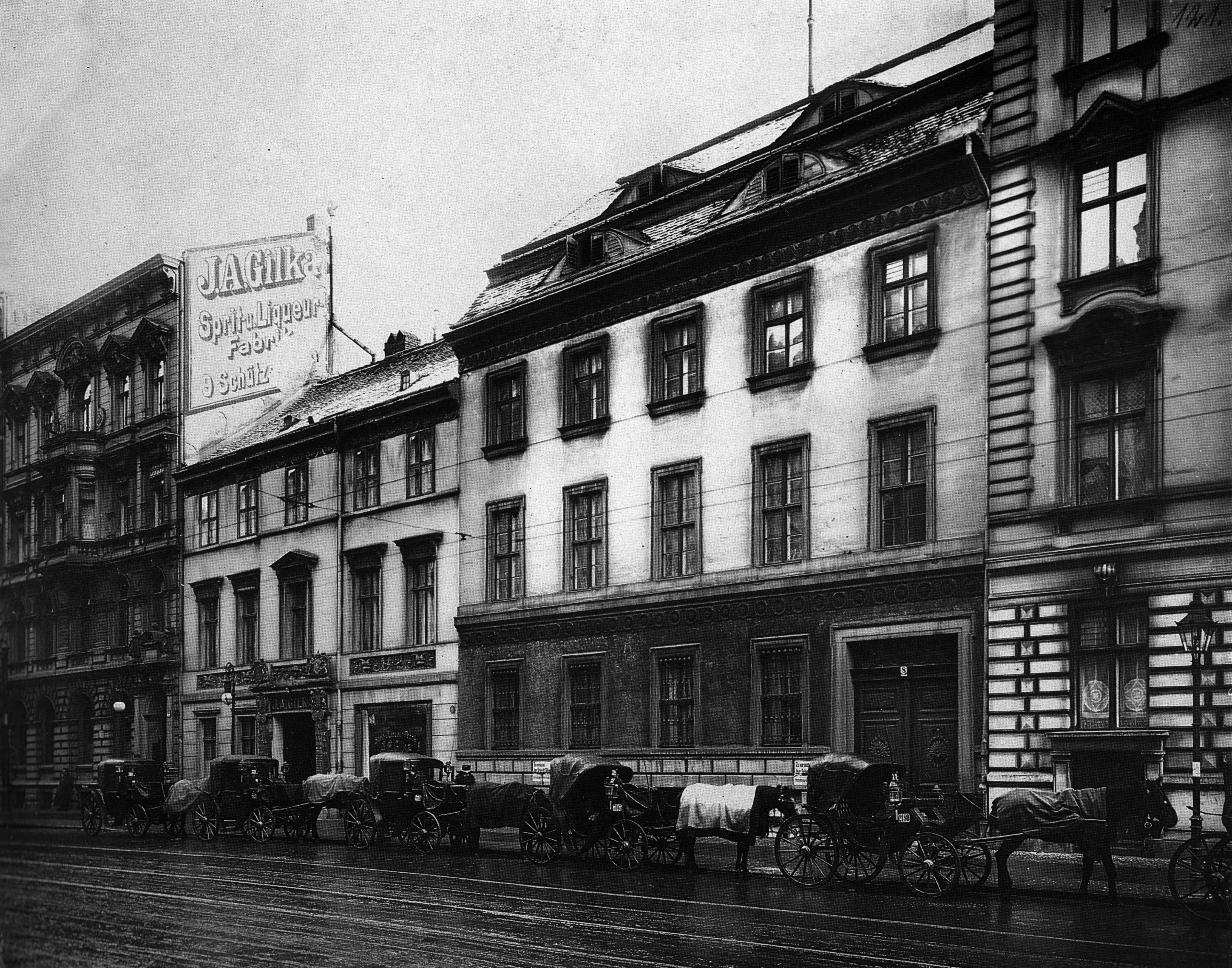 No. 8 and 9, Schützenstraße, close to Charlottenstraße in Friedrichstadt, Berlin (now in Mitte district).